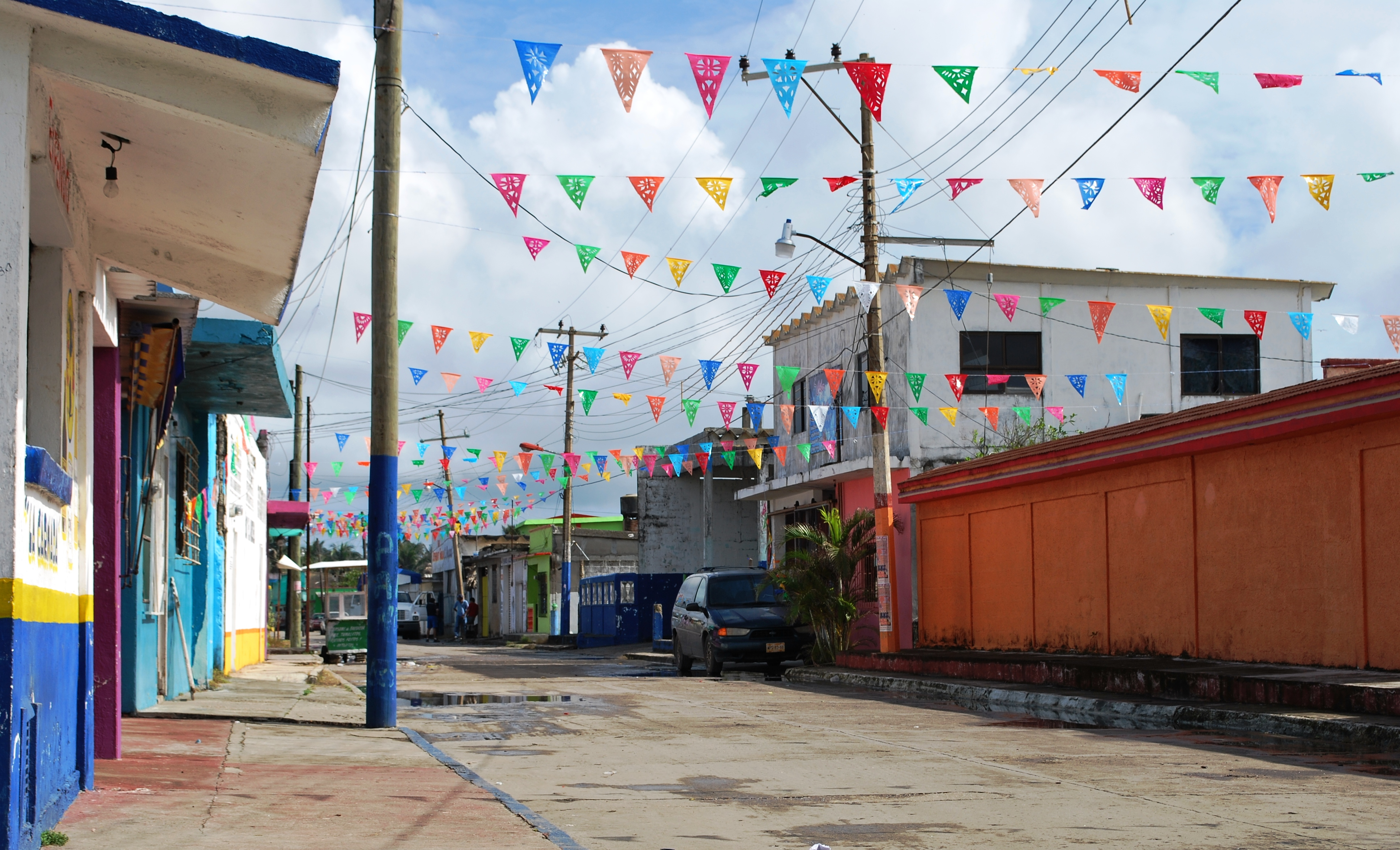 View of Gregorio Mendez street in Sanchez Magallanes, Tabasco, Mexico